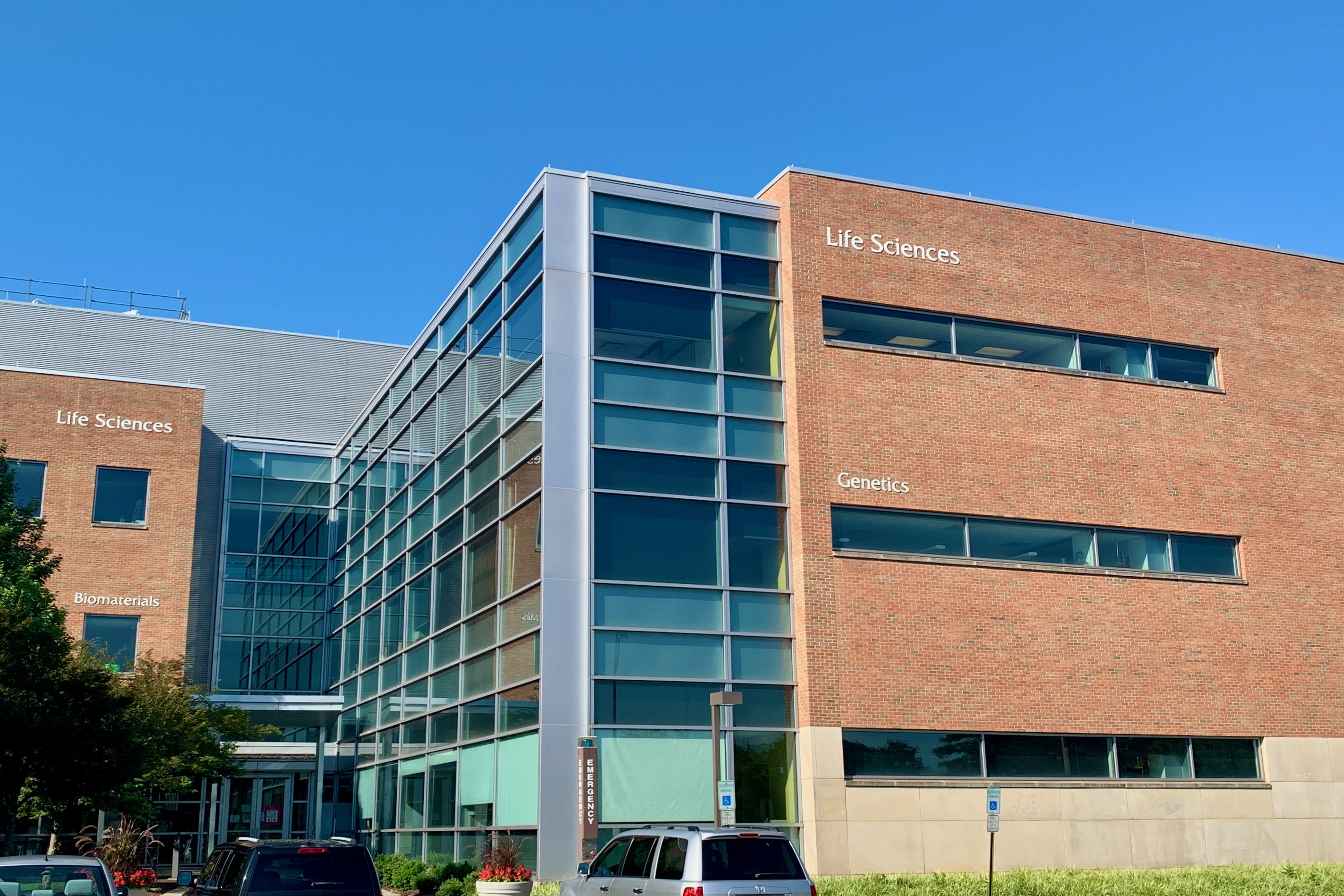 The Life Sciences Building on the Busch Campus of Rutgers University in Piscataway, New Jersey.